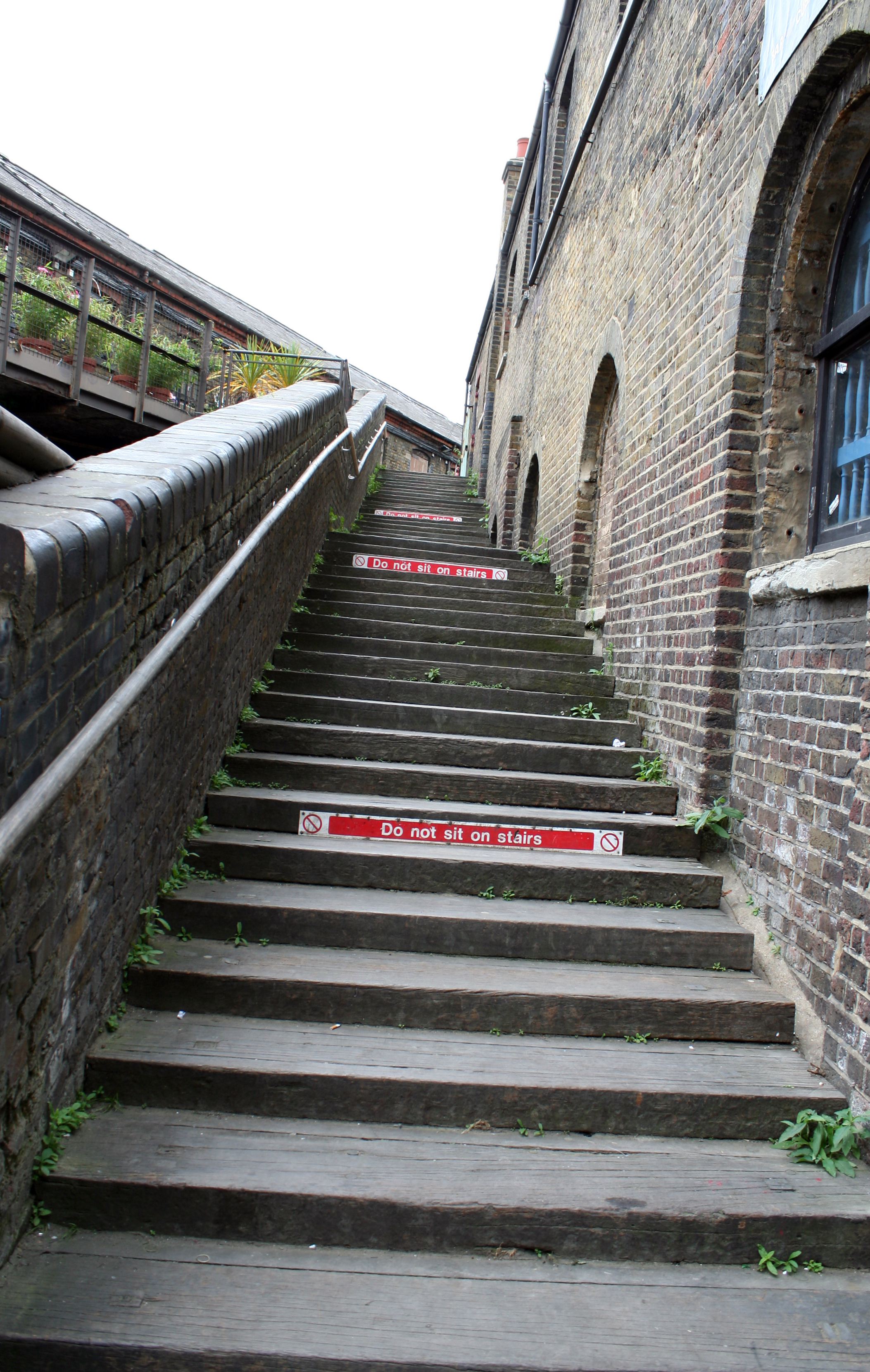 The alley/stair where The Clash posed for their 1977 debut album cover. What was a ramp has had the health and safety treatment with the addition of some wooden stairs (complete with warning signs) that increase ground height relative to the wall on the left. The beams overhead have also been removed. Compare and contrast with The Clash first album cover.